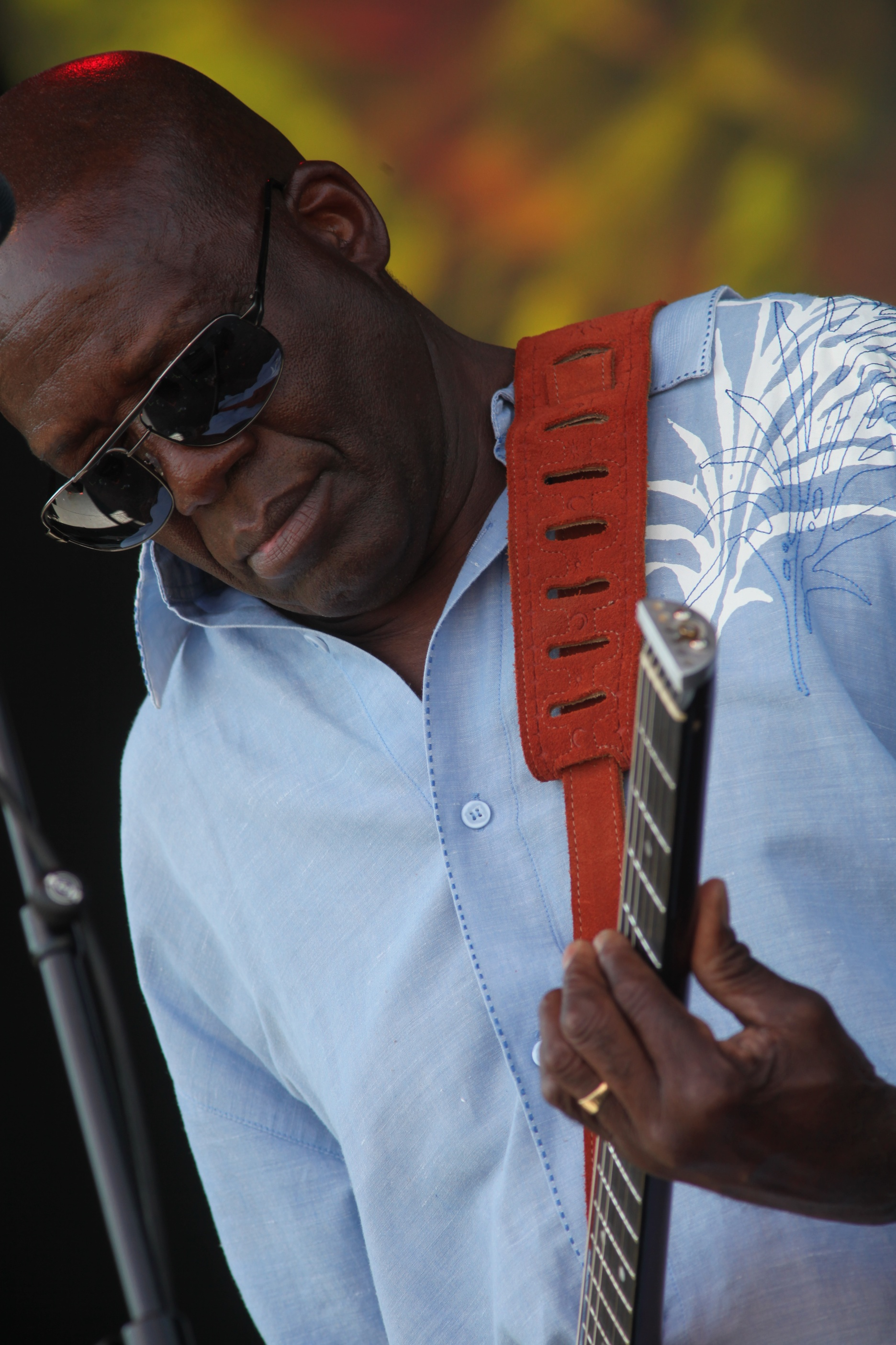 John Ellison playing a Speedster headless guitar at the 2010 Greenbelt Harvest Picnic.